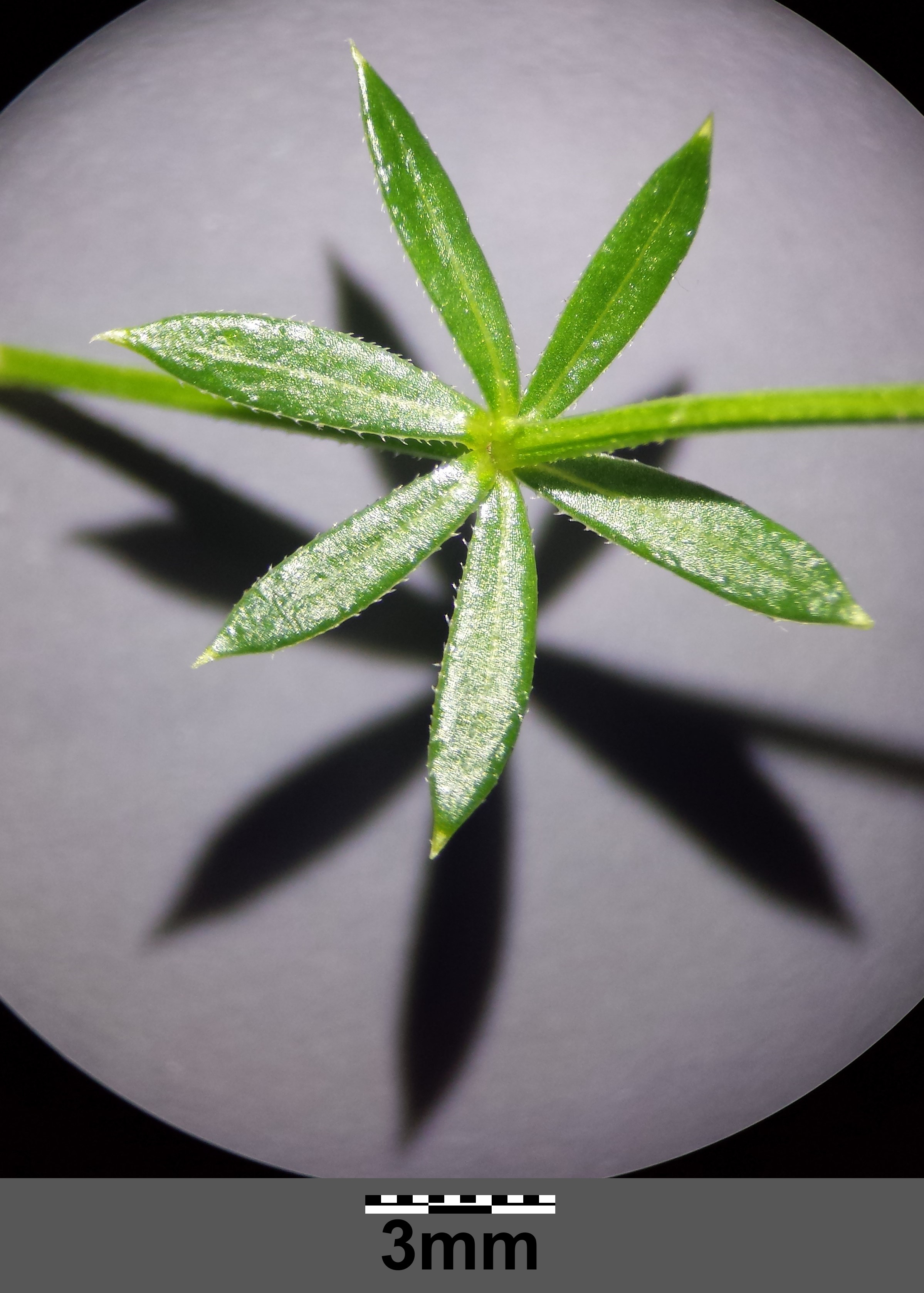 Stipe with leaves Taxonym: Galium uliginosum ss Fischer et al. EfÖLS 2008 ISBN 978-3-85474-187-9 Location: near Komau, district Freistadt, Upper Austria - ca. 850 m a.s.l. Habitat: brookside